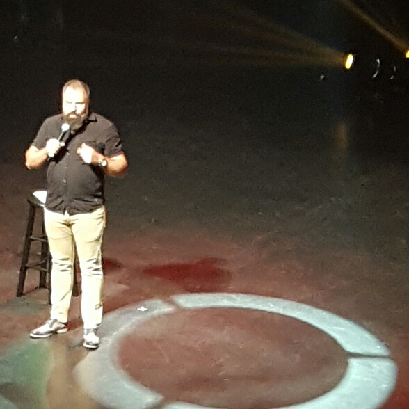 Jean-François Mercier photographed in Brossard, Quebec, Canada at the L'Étoile Banque Nationale.